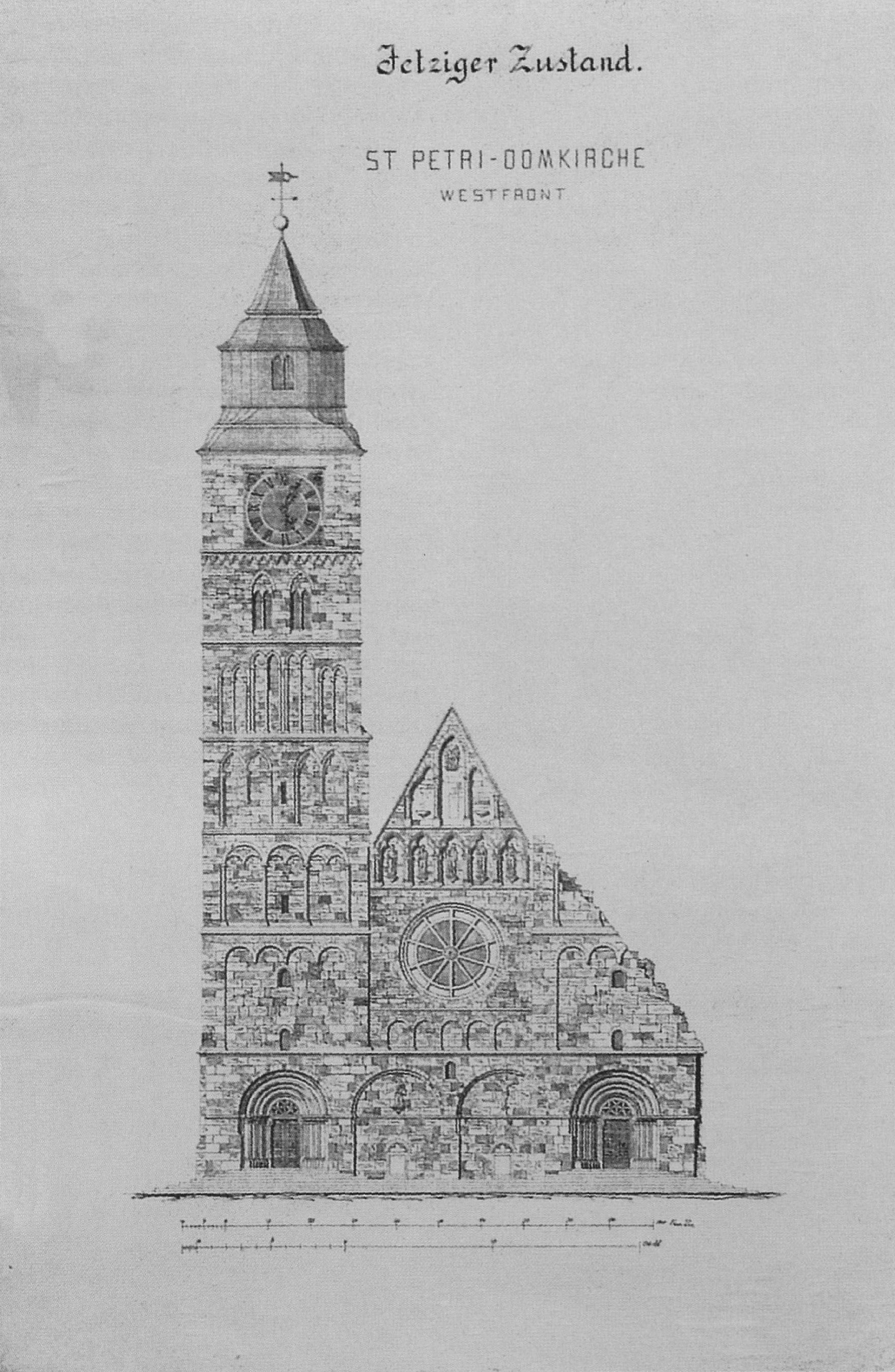 Western façade of Bremen Cathedral, drawn before 1887, documentation of the base for the architectural contest for the restoration of the cathedral